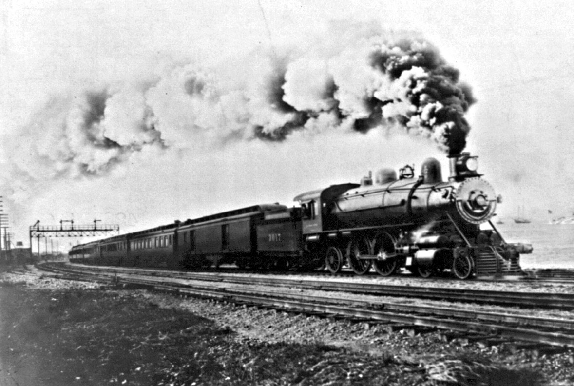 The Overland Limited leaving Sixteenth Street Station, Oakland.